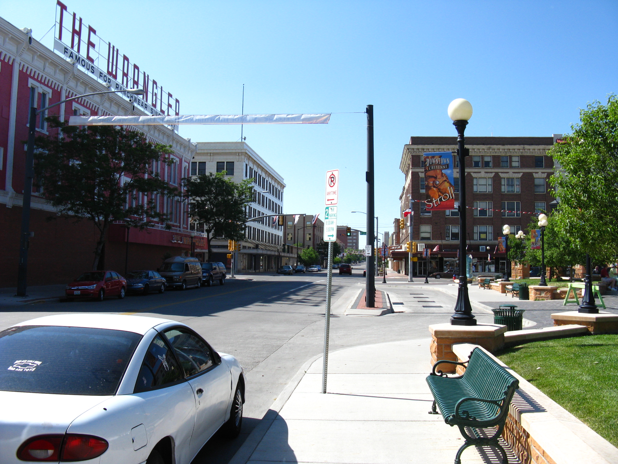 Downtown Cheyenne, Wyoming. This area is listed on the National Register of Historic Places.